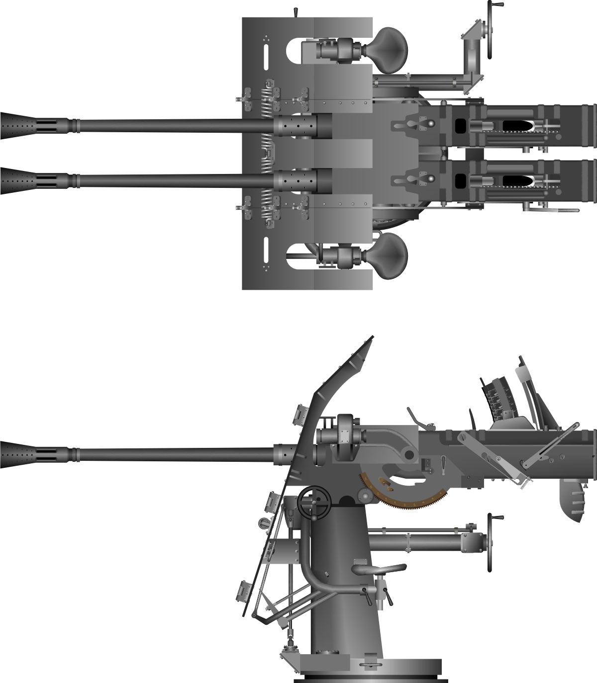 Twin 3.7 cm Flakzwilling M43U on a Doppellaffette DLM 42U mount. The 3.7 cm Flak 43 M43U was the marine version of the 3.7 cm Flak 43 used by the 'Kriegsmarine on Type VII and Type IX U-boats